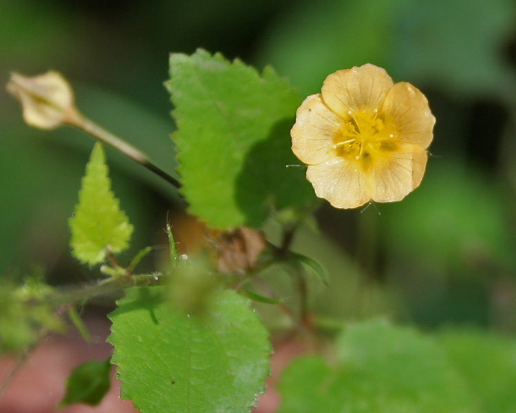 Bhumibala, heartleaf fanpetals Sida cordata in Narsapur, Andhra Pradesh, India.